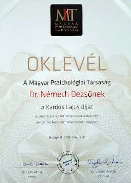 Lajos Kardos Award